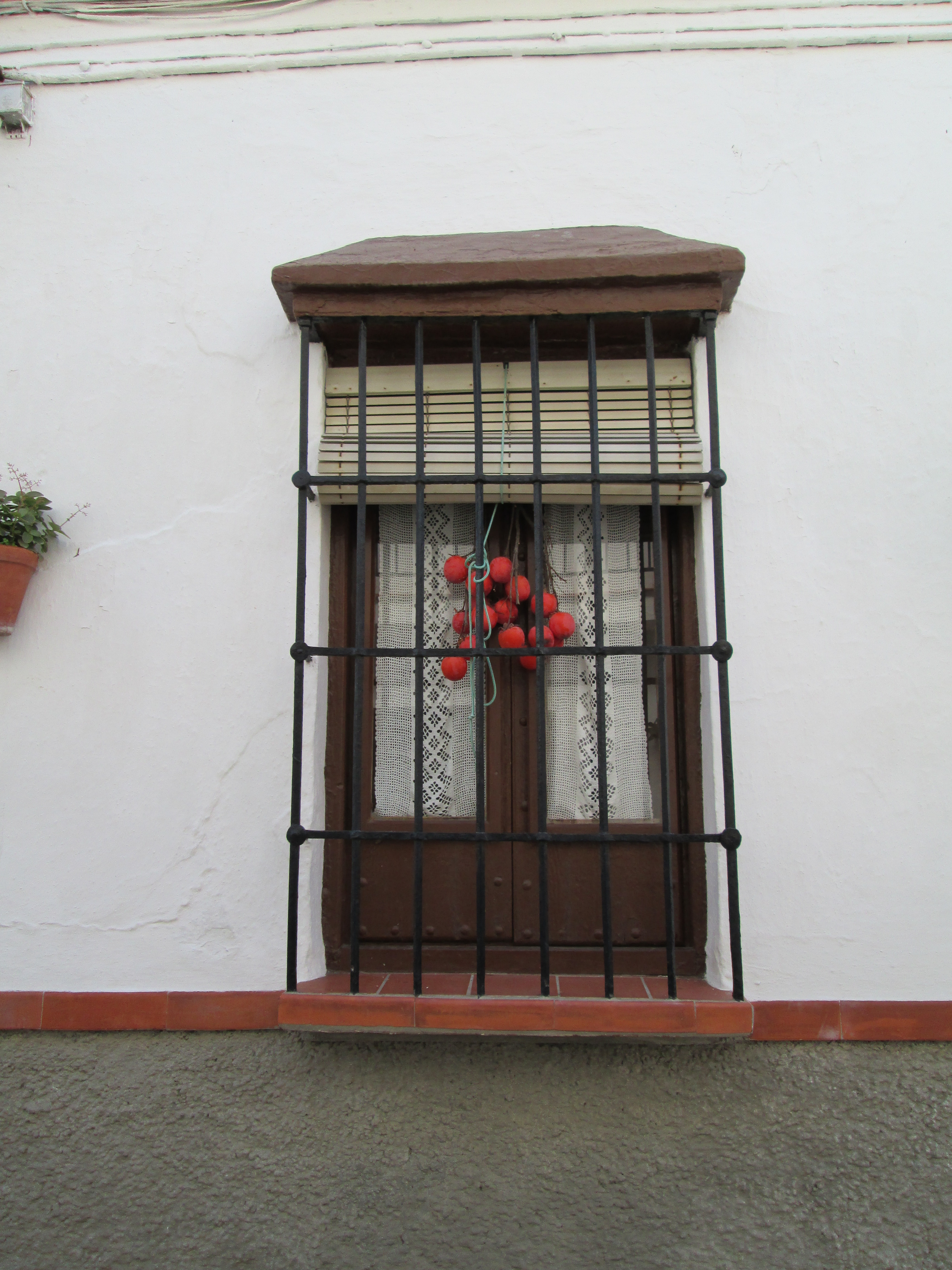 Carratraca